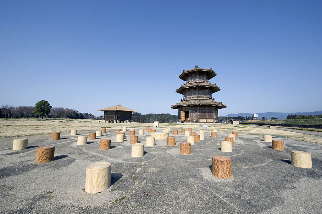 The ruins of Kikuchi Castle still stand in Kumamoto Prefecture.